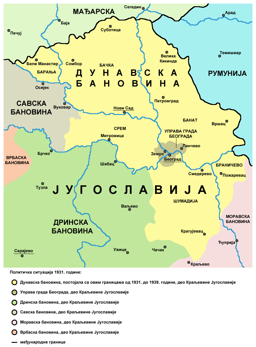 Danube banovina in 1931 - Serbian language version.